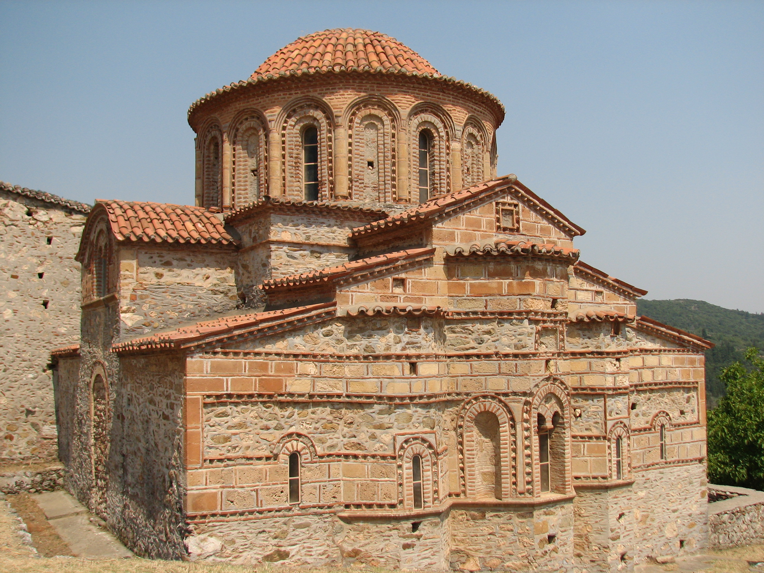 Byzantine city of Mystras, church of saint Theodor.